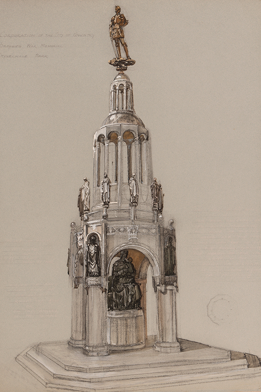 Previously offered for sale by Abbott and Holder, when it was described as "‘Proposed War Memorial / Corporation of the City of Coventry / Styvechale Park’. Pencil, watercolour and gouache on grey paper. 30.5x21 inches unmounted."